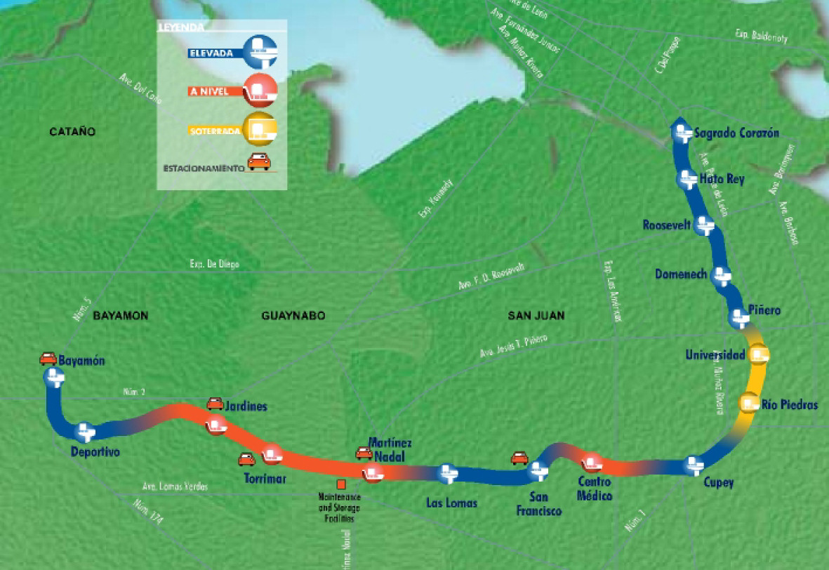 Tren Urbano Route. Blue signifies track and stations that are above ground, red signifies ground-level, and yellow signifies underground. The car symbol denotes parking lots